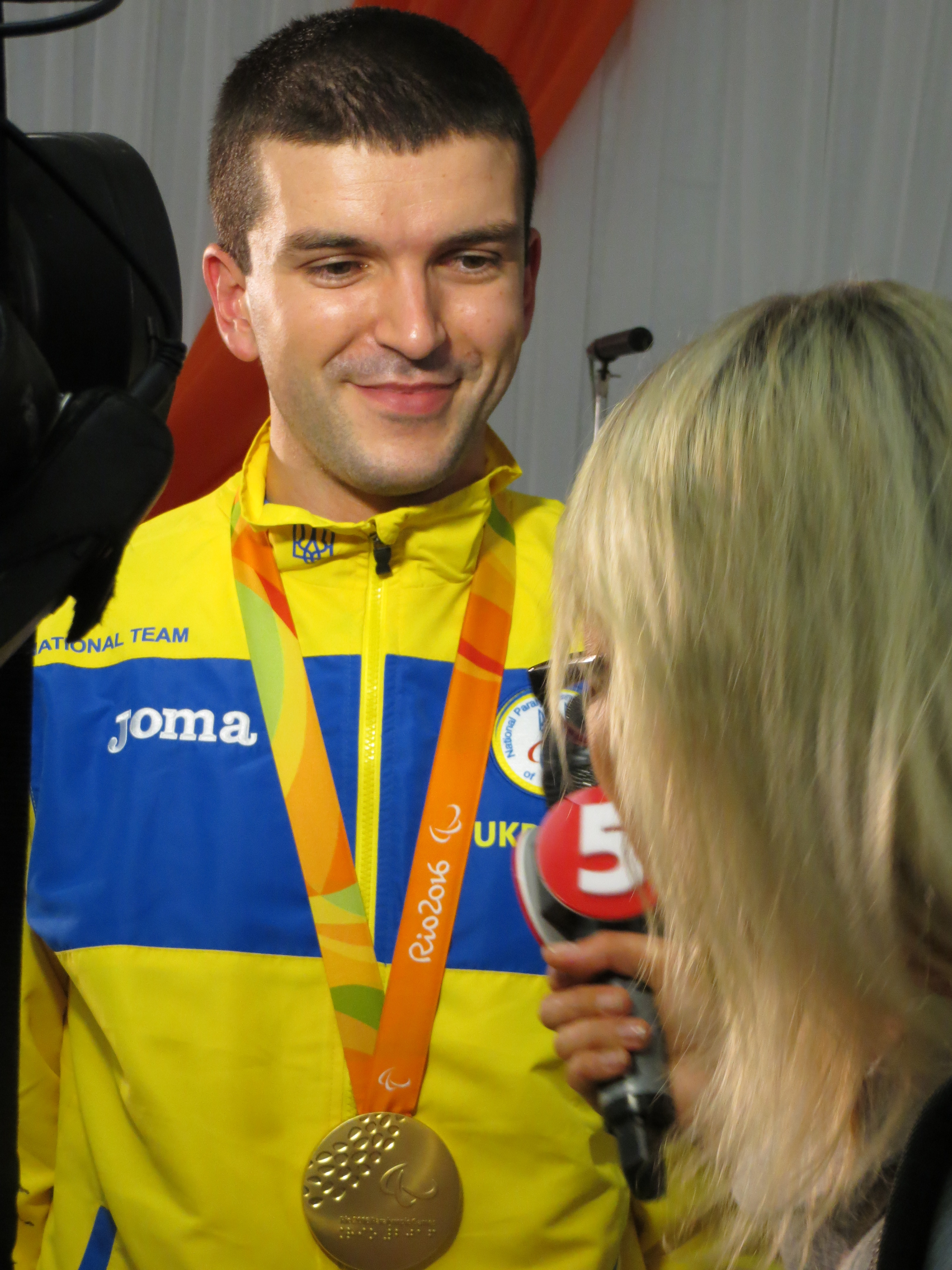 Ukrainian National Paralympic team welcomed at Boryspil (September 21, 2016)